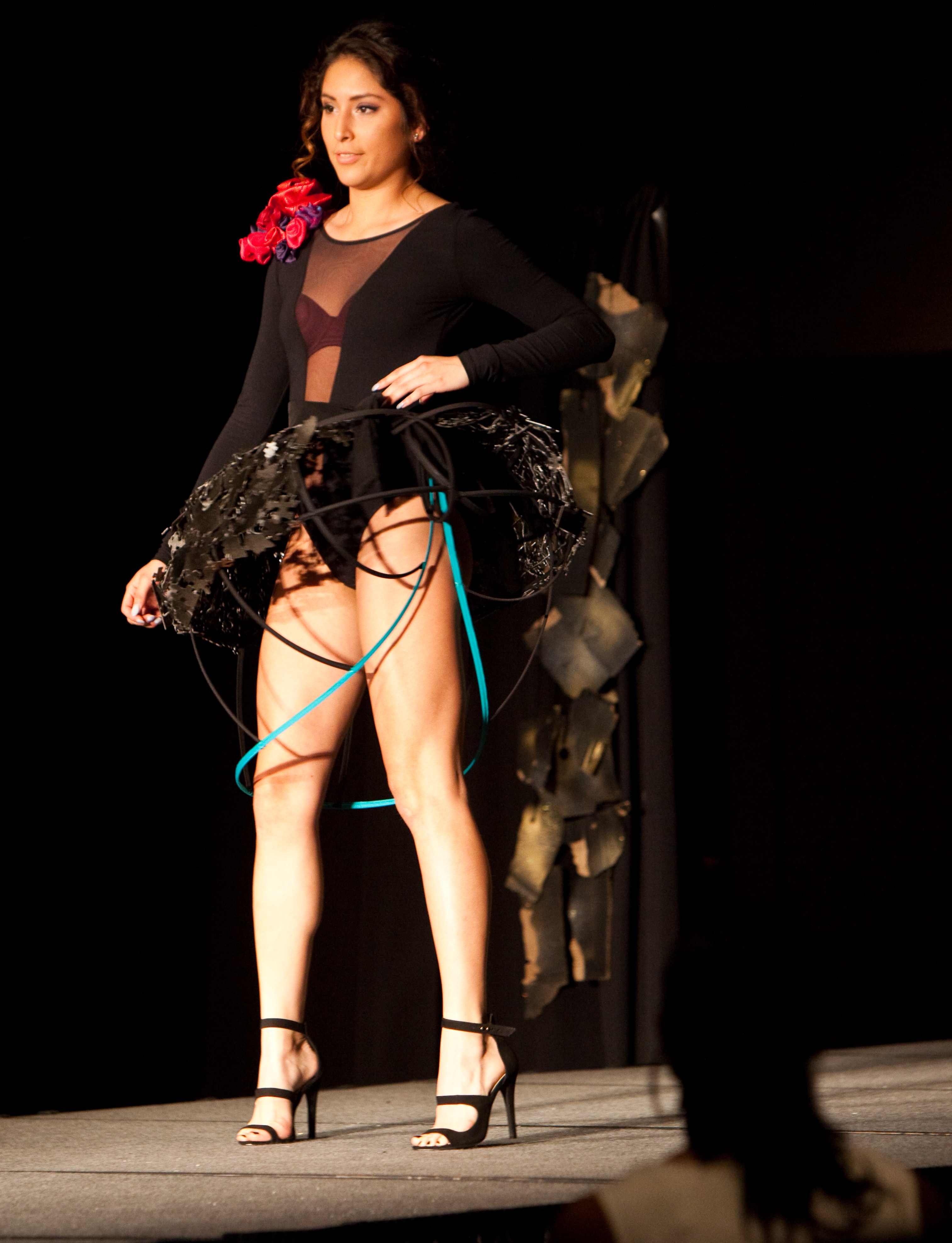 Students from the College of DuPage Fashion Studies program recently showed off their creations at "Elements," the 2015 fashion show. In addition to highlighting their creations, students received awards in various categories.